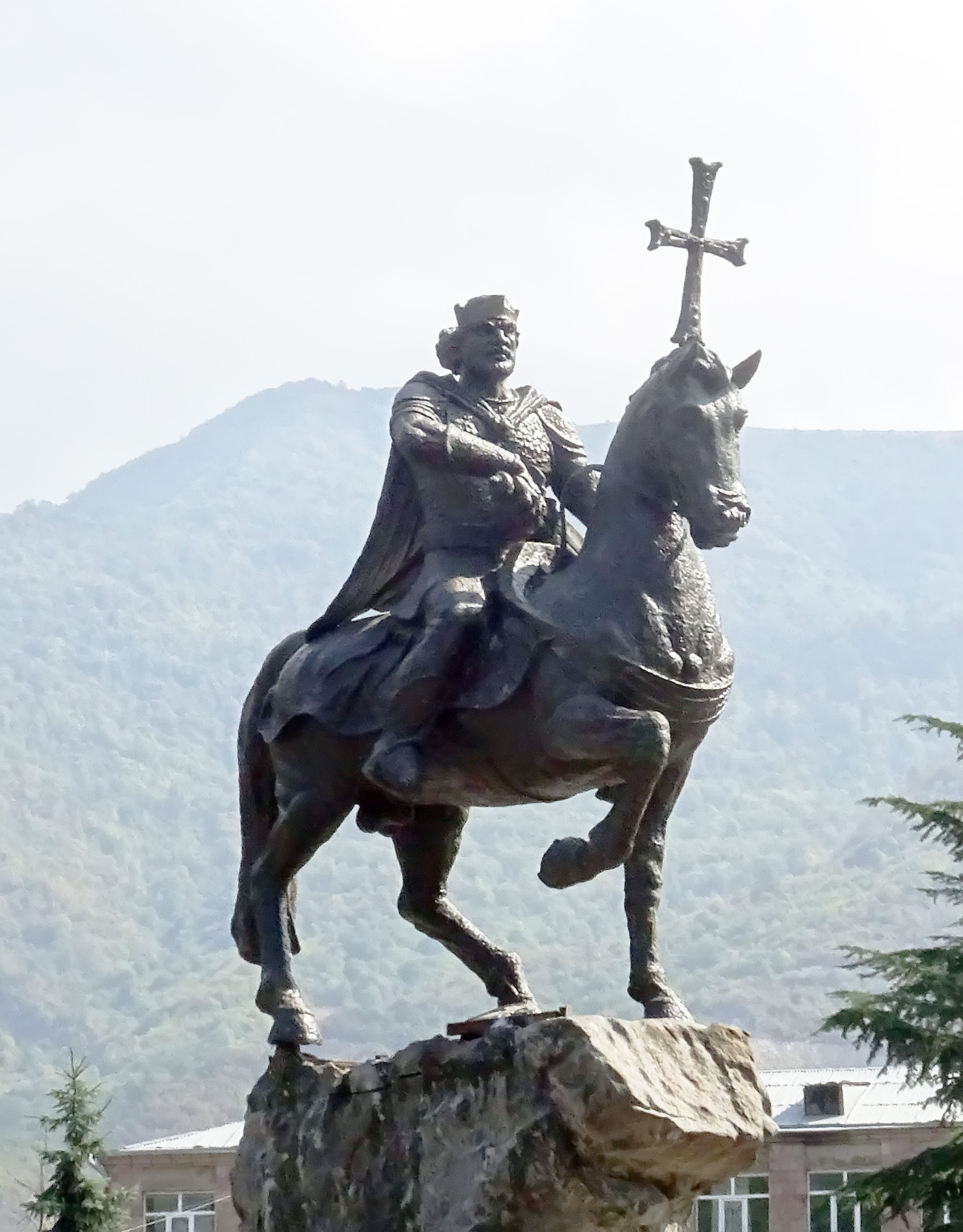 A statue of Ashot II Yerkat in Ijevan, Armenia.